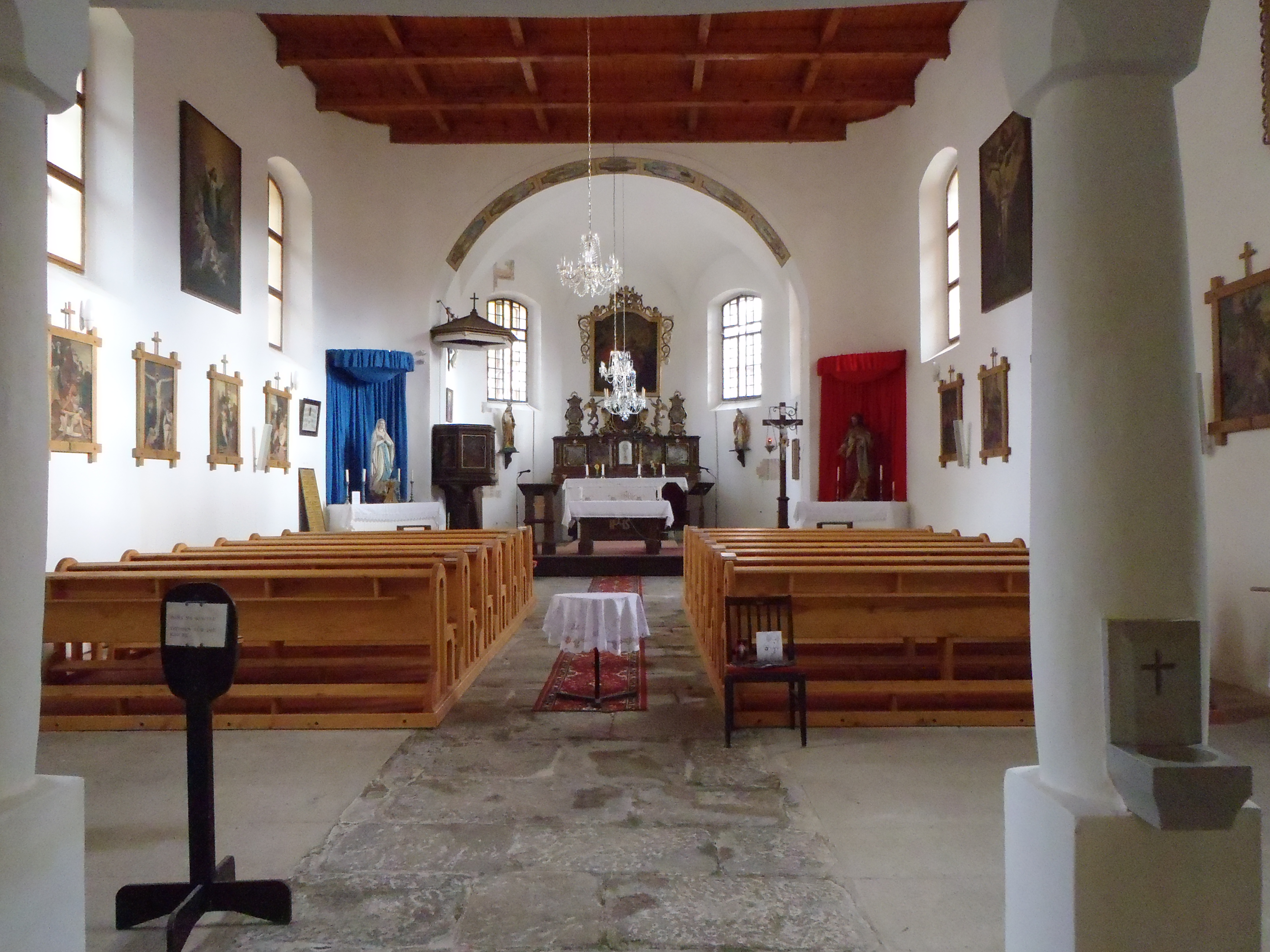 Srní, Czech Republic - church of Holy Trinity - interior